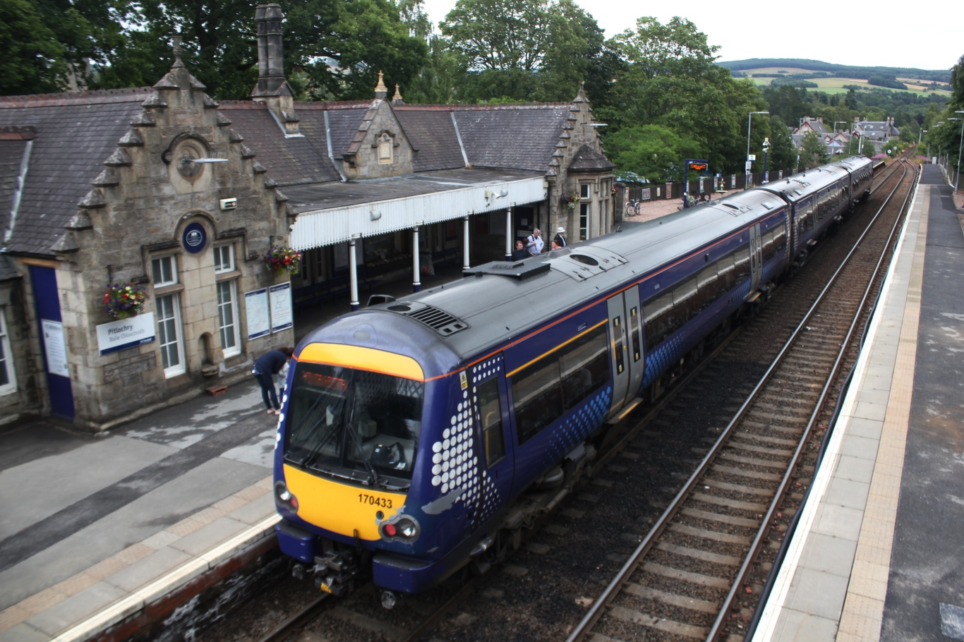 An Inverness to Edinburgh service at Pitlochry. It is formed by Abellio Scotrail's 170433.